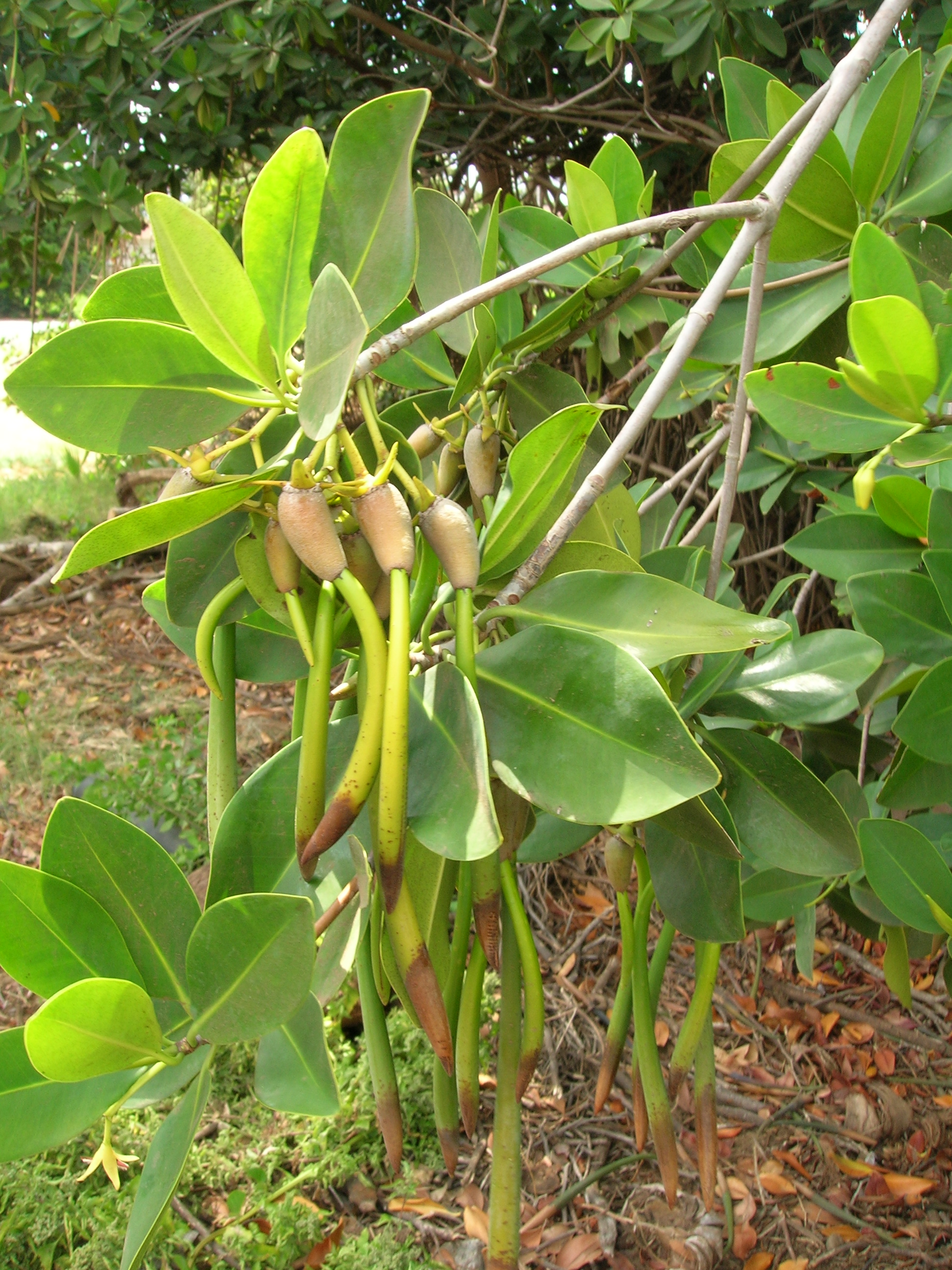 Rhizophora mangle (fruit). Location: Maui, Waiohuli Keokea